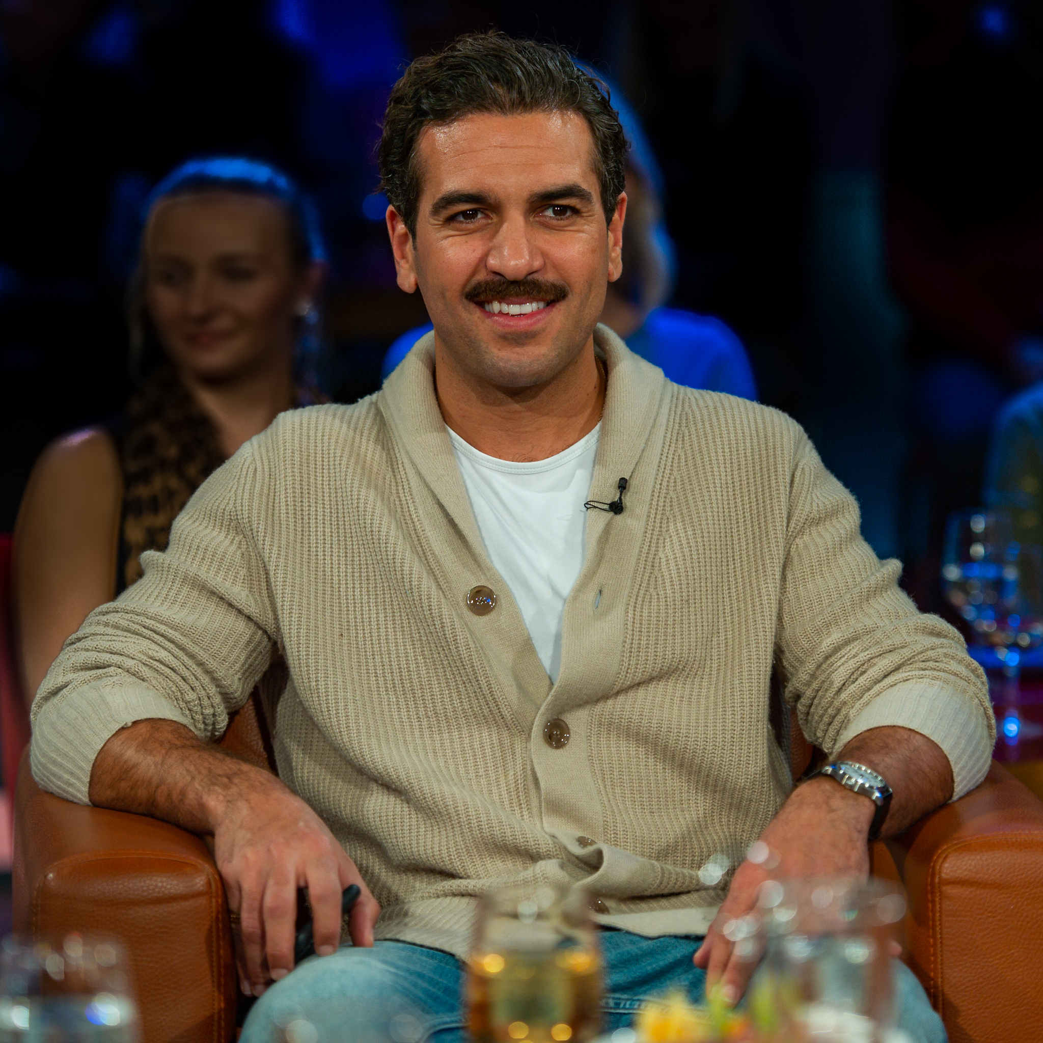 Elyas M'Barek,Live on tape,NDR Talk Show